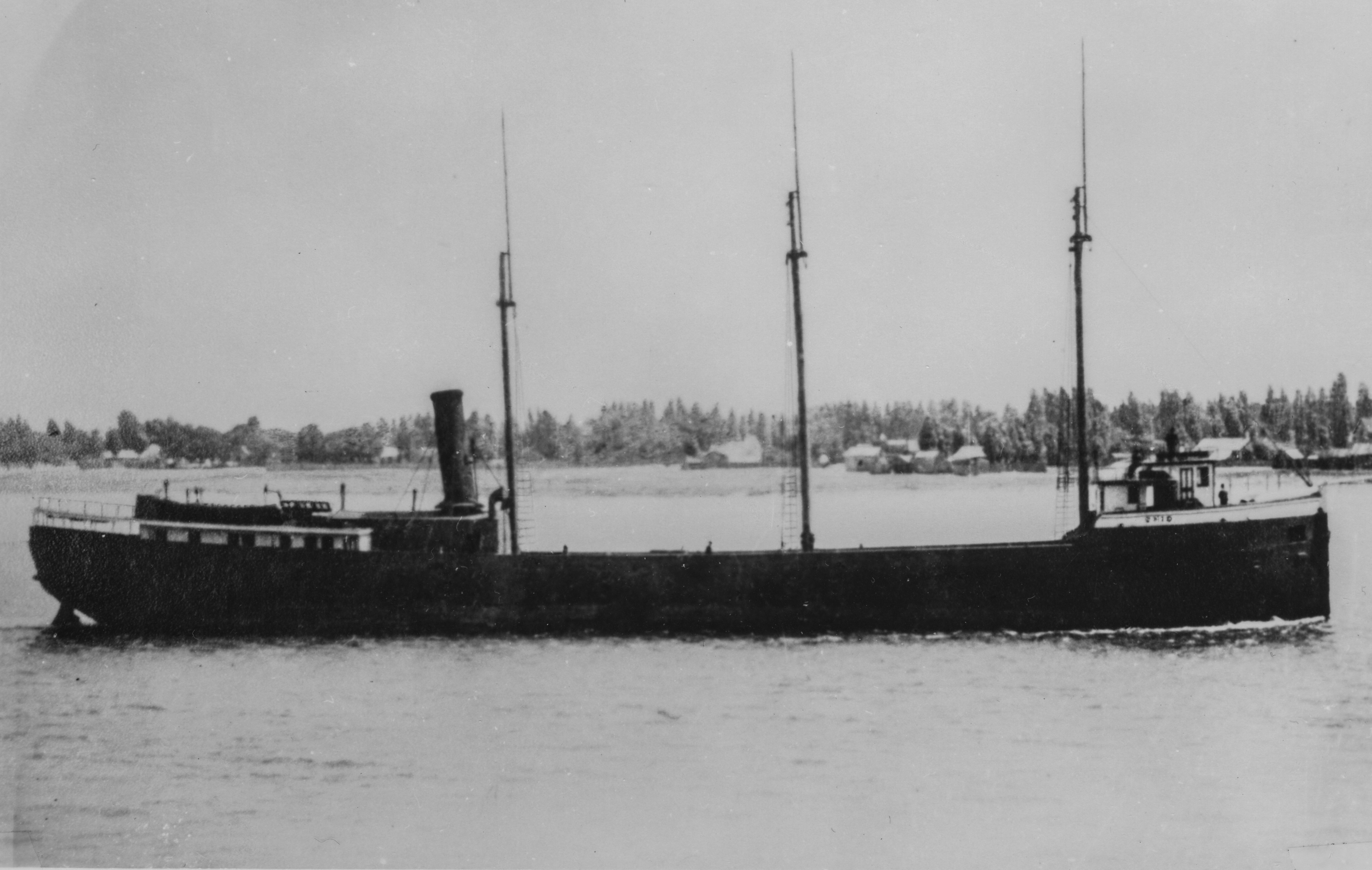 The steamer Ohio before she sank